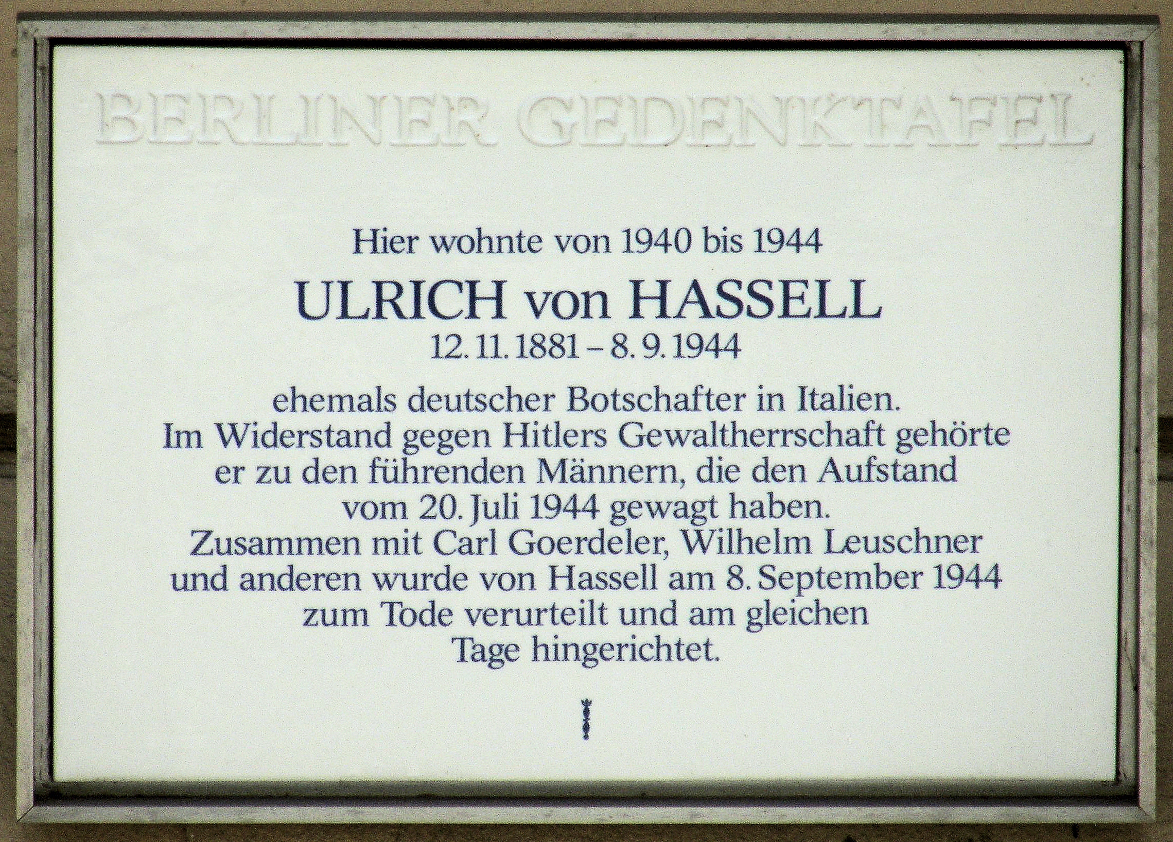 Berlin memorial plaque, Ulrich von Hassell, Fasanenstraße 28, Berlin-Charlottenburg, Germany Koordinate:52°30′4″N 13°19′37″E / 52.50111°N 13.32694°E